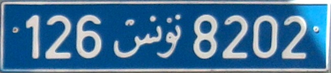 Rented car license plate, Tunisia